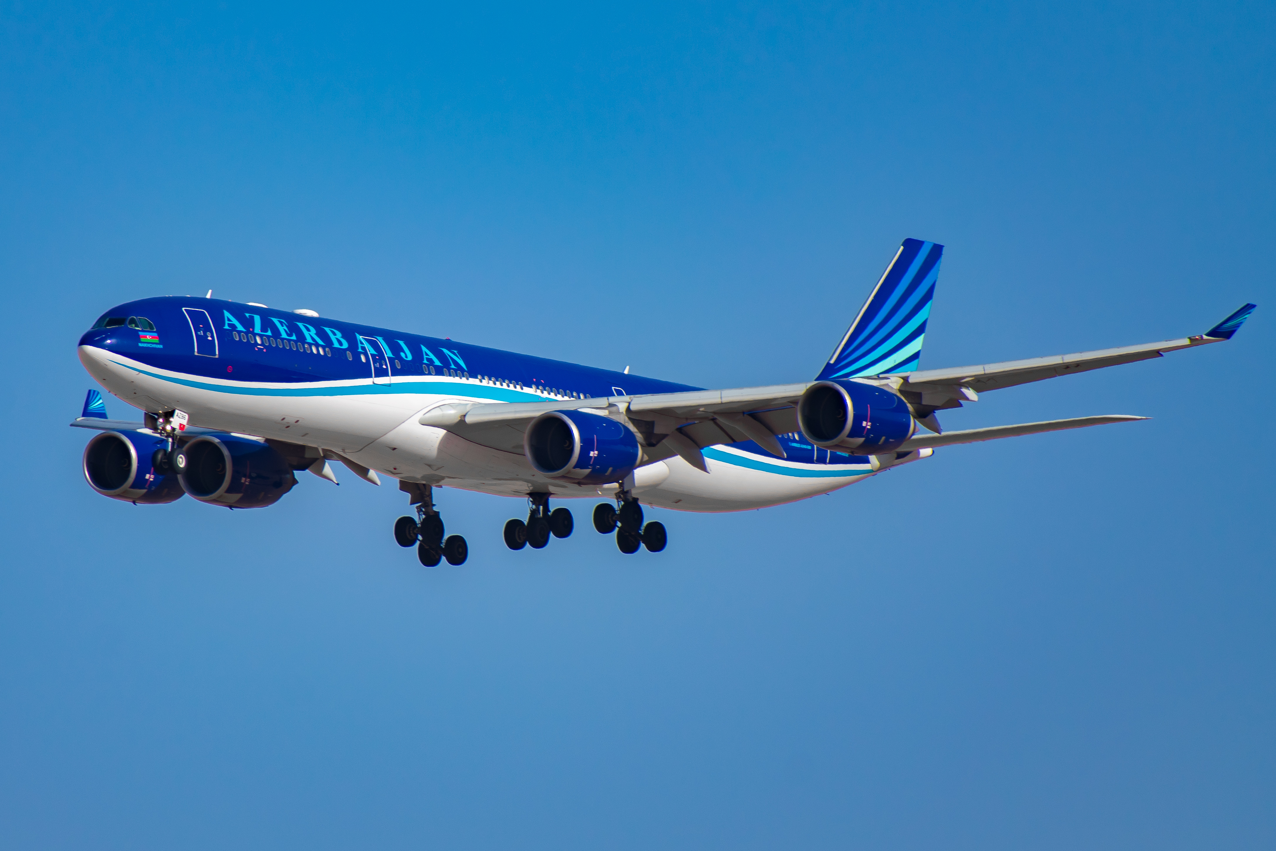 at final